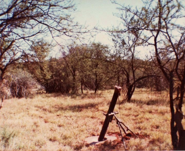 Operational Zone Image 5